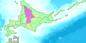 Kamikawa shinkokyoku subpref